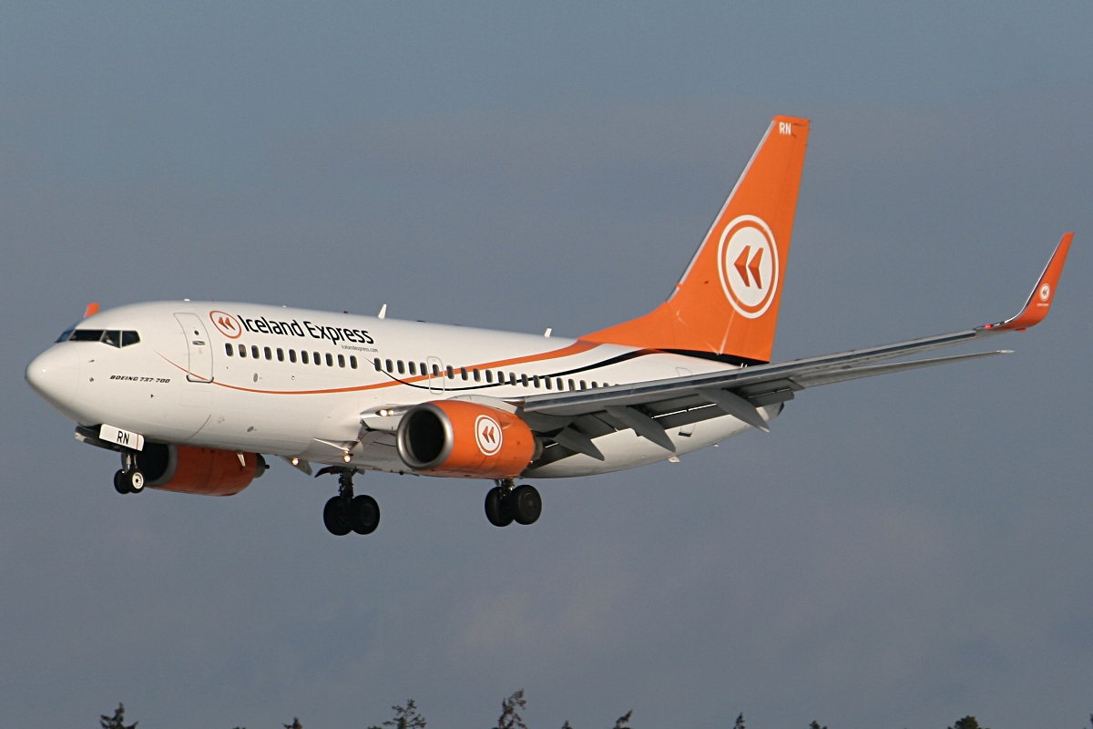 Iceland Express (Astraeus) Boeing 737-700 G-STRN